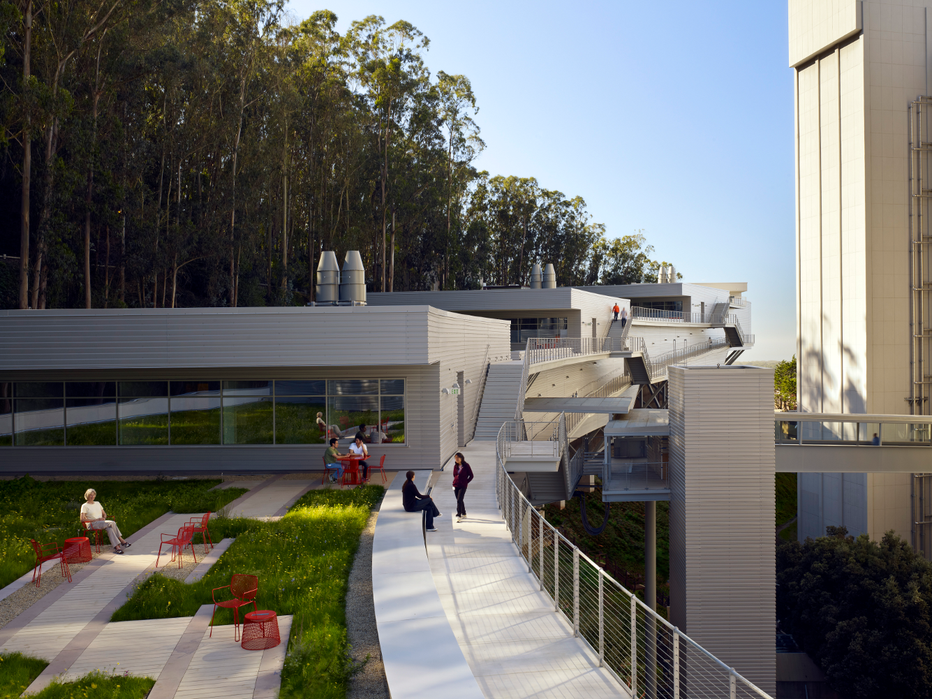 The Ray and Dagmar Dolby Regeneration Medicine Building at the UCSF Institute for Regeneration Medicine, University of California, San Francisco. Designed by architect Rafael Viñoly, and completed in 2010. With a roof garden patio, and Eucalyptus trees on Mount Sutro in the background.